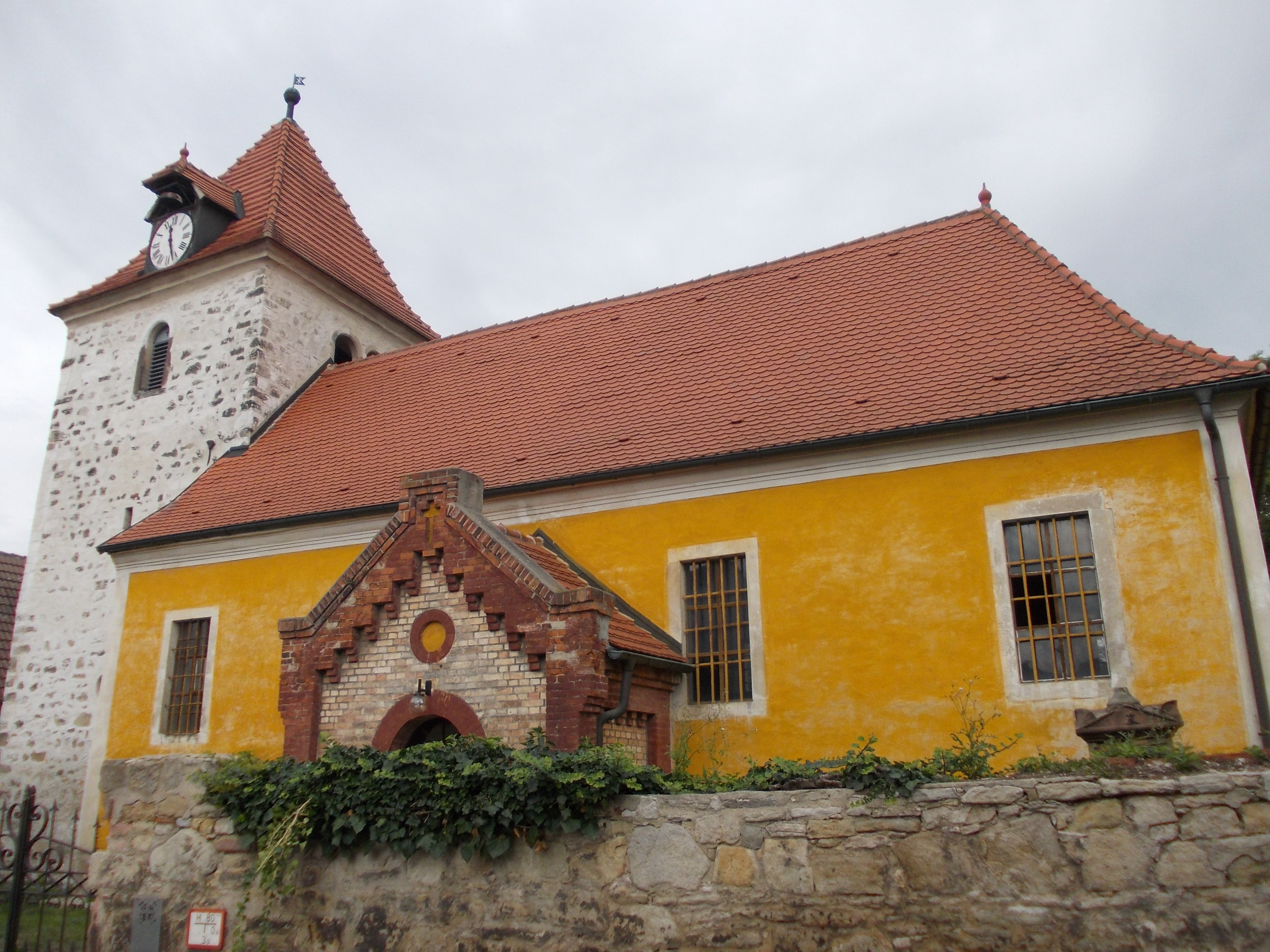 Lieskau church (Salzatal, district: Saalekreis, Saxony-Anhalt)